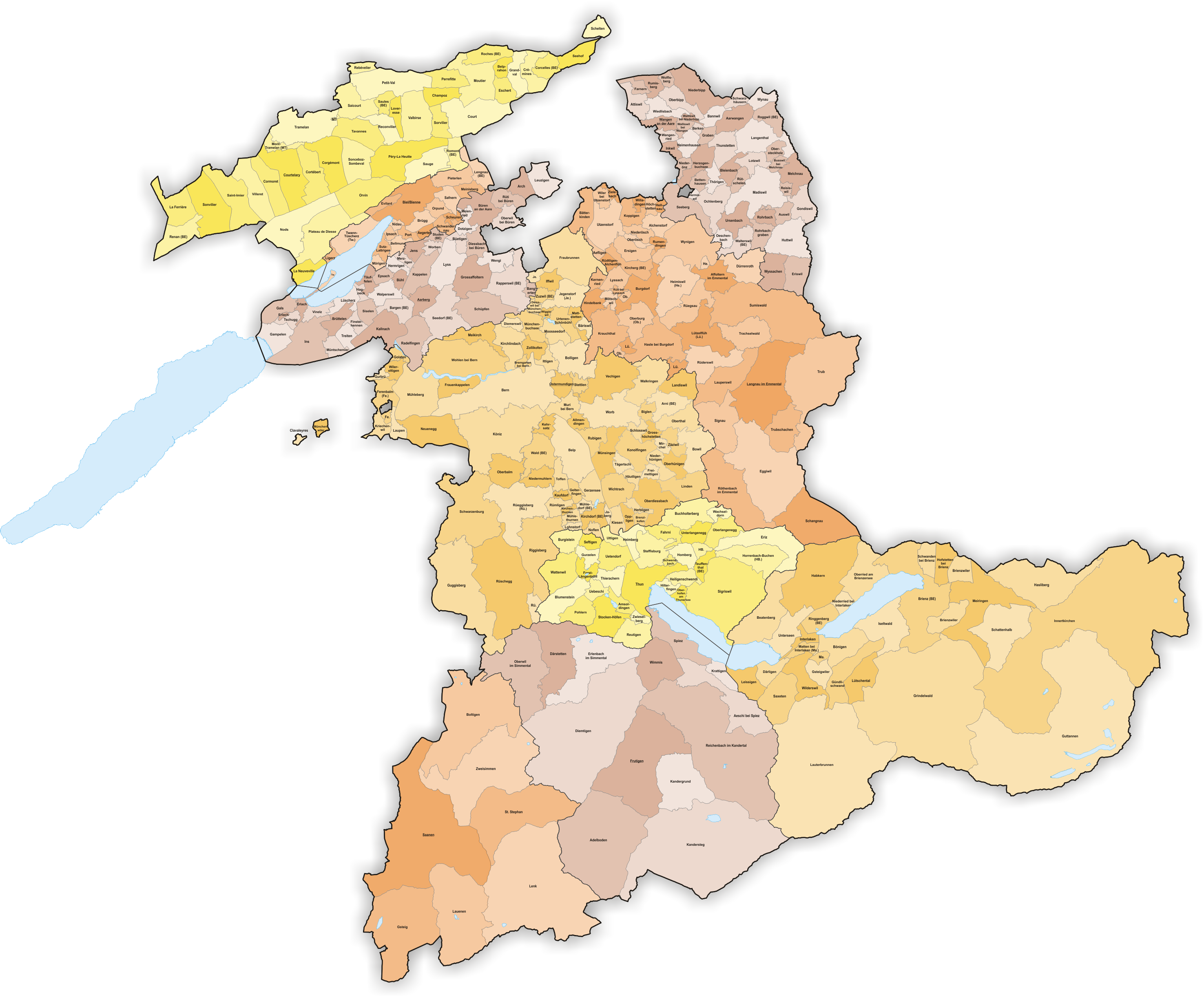 Municipalities in Canton Bern